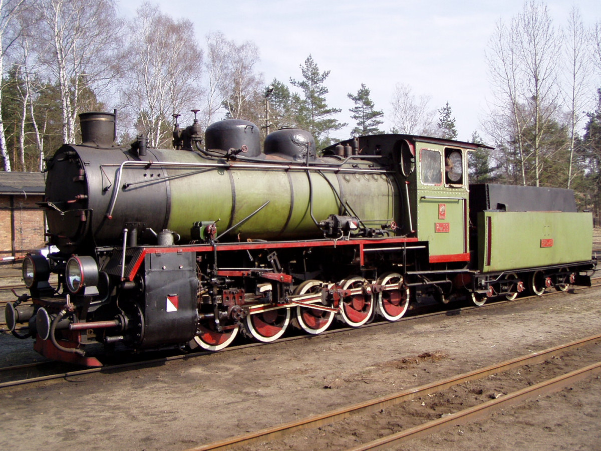 PKP class Pw53 steam locomotive in Rudy railway museum, Poland.